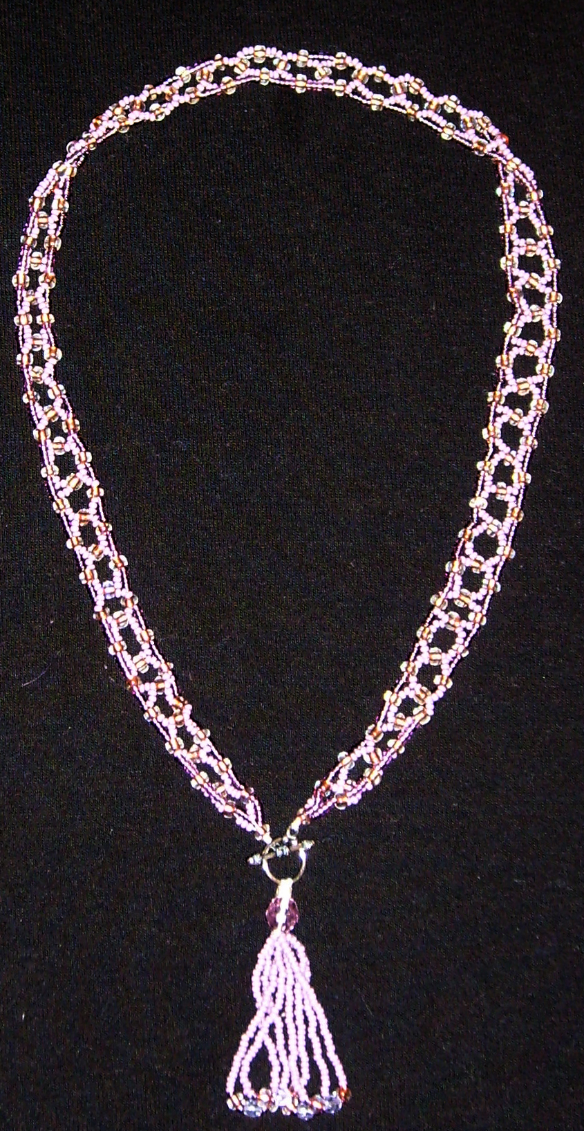 Necklace made from seed beads, Czech cut glass beads, and sterling silver findings. Original design.